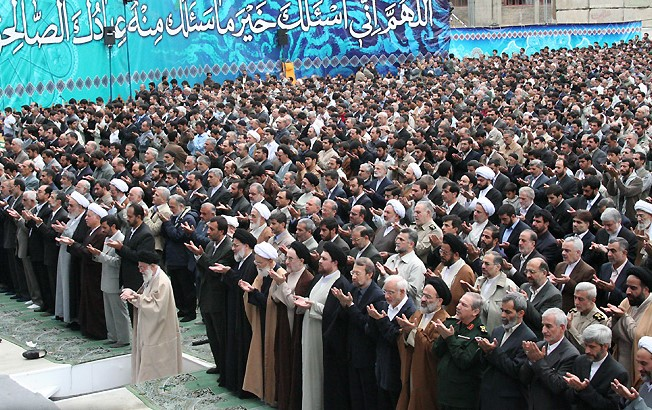 Grand Ayatollah Seyyed Ali Khamenei eid ul-fitr prayer of 24 October 2006/1 Shawwal 1427.